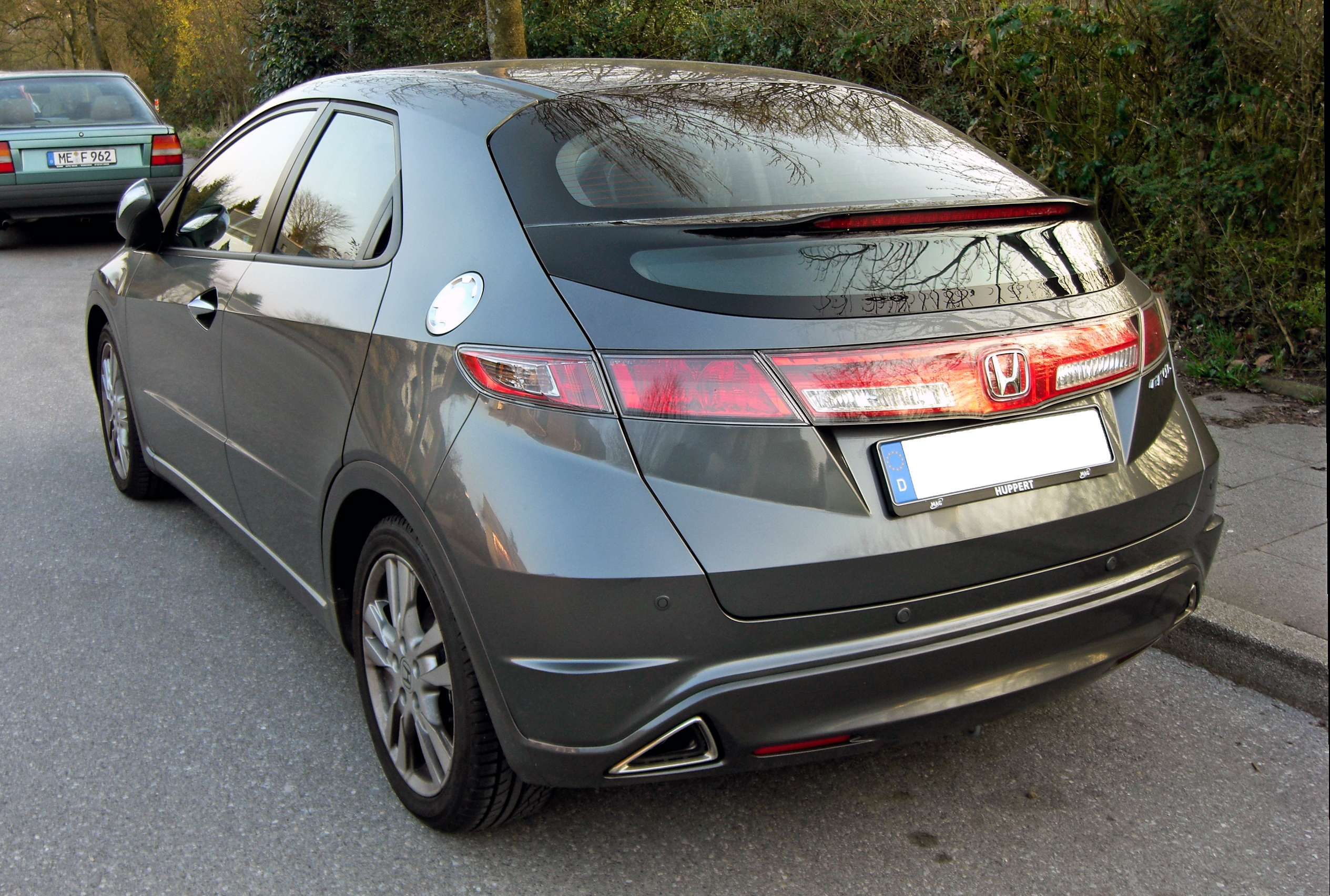 Honda Civic 8 Facelift